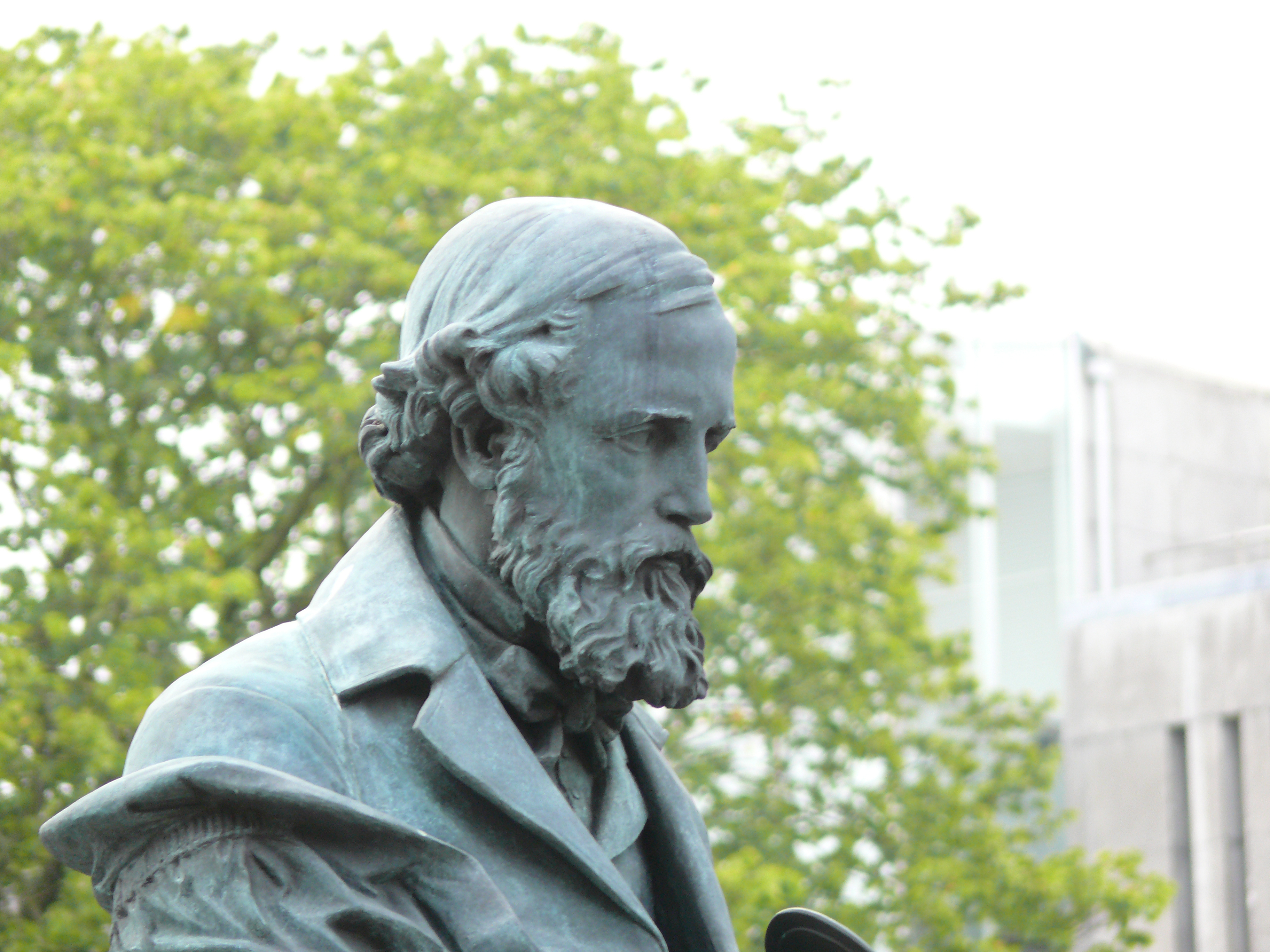 A statue by Alexander Stoddart in honour of James Clerk Maxwell at the end of George Street (St. Andrew Square side) in Edinburgh. Commissioned by The Royal Society of Edinburgh. Unveiled 25 November 2008.